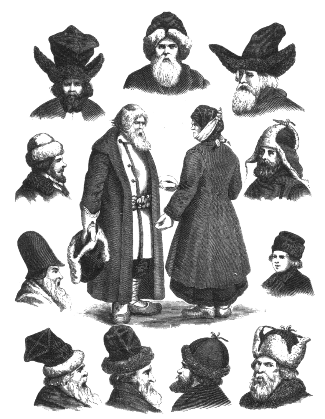 engraving of the Belorussian head covering, XIXth